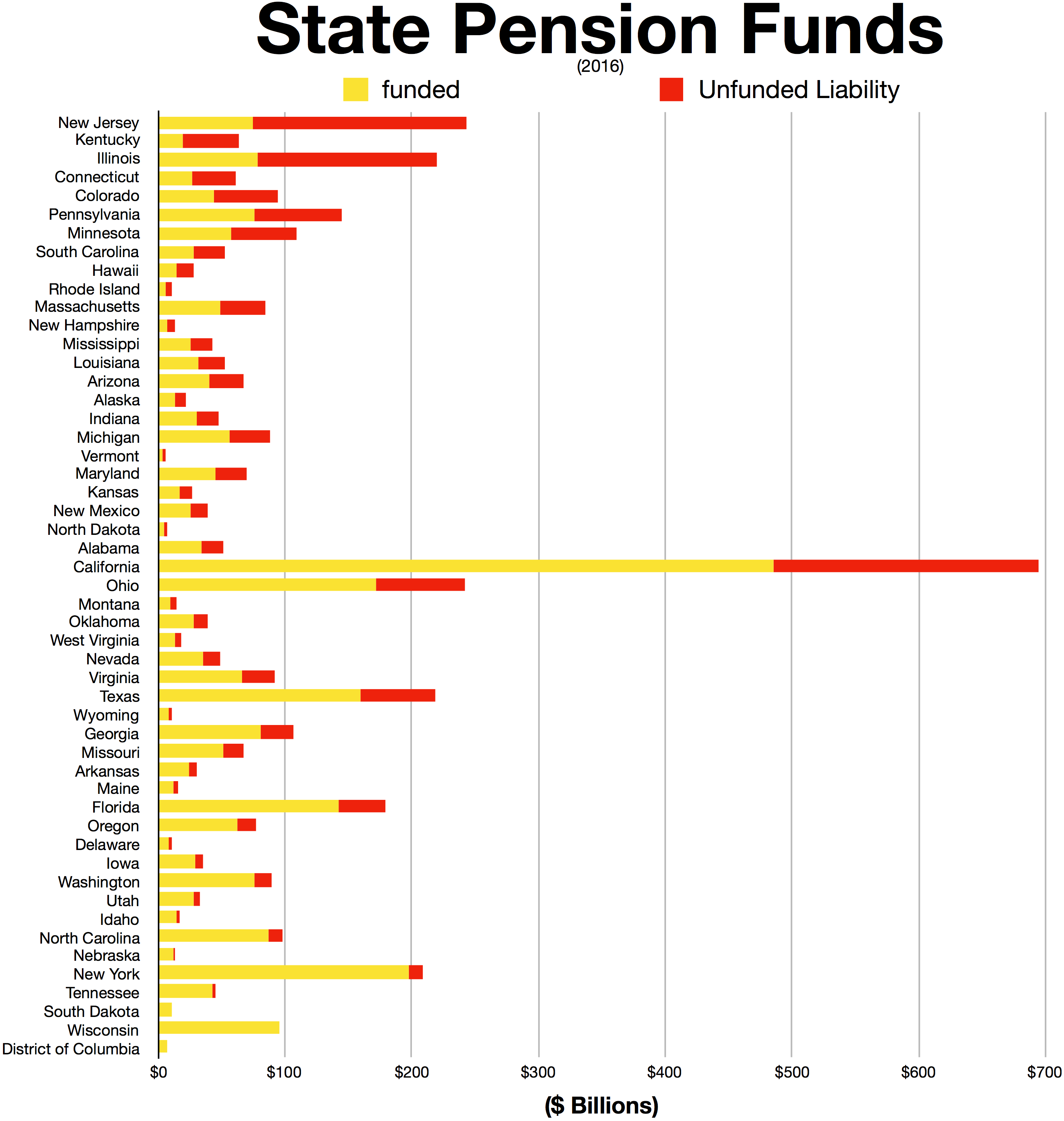 State pension funds and unfunded liabilities